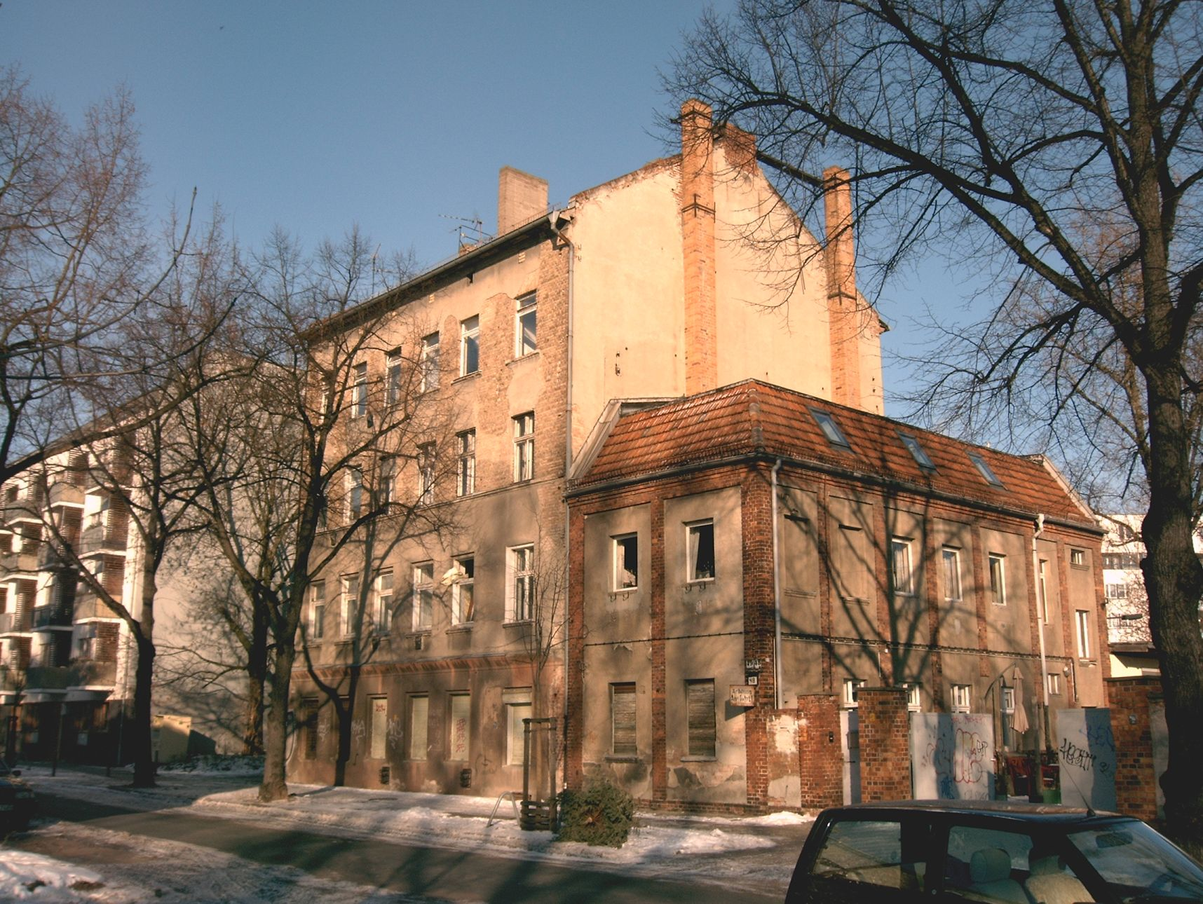 Building at Charlottenburger Straße, Berlin-Weißensee, Germany